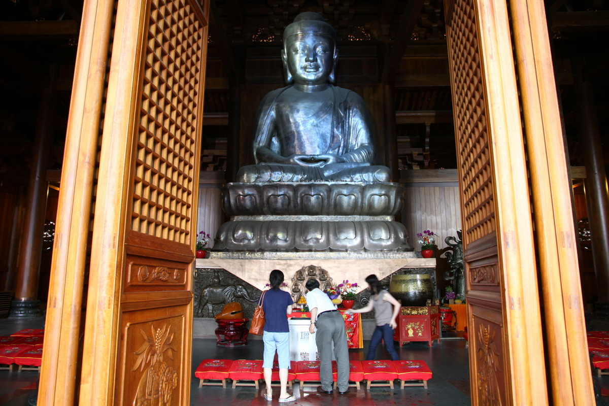 Buddha in the Precious Hall of the Great Hero, Jing ’an Temple, Shanghai